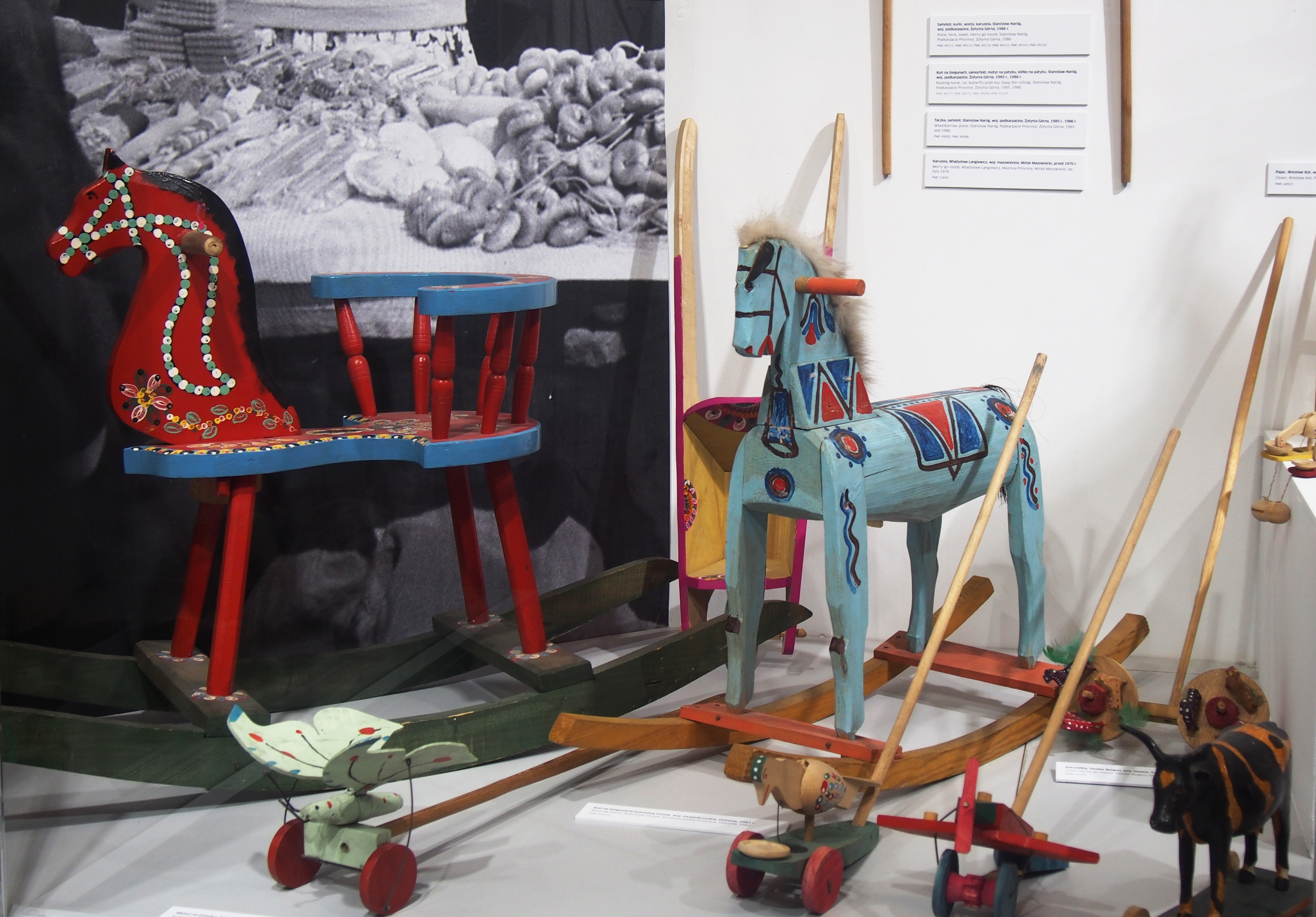 Toys in National Ethnographic Museum in Warsaw.